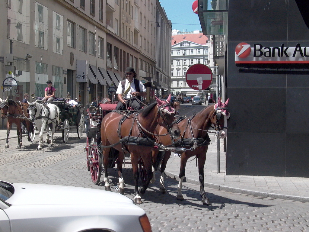 Austria, Vienna, Stephansplatz